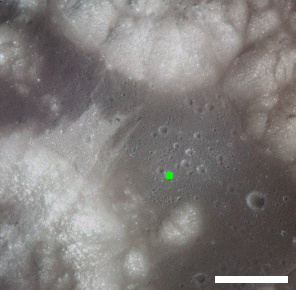 Green dot shows location of Hess-Apollo, Taurus-Littrow Valley, on the moon. Scale bar at lower right is 5 km.